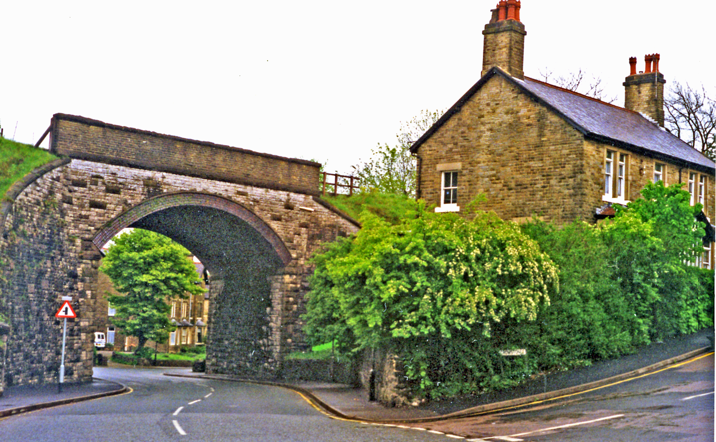 Buxton: near site of former Higher Buxton station, 1995. View eastward on Dale Road. The bridge carried the ex-LNW line to Ashbourne, which was closed mainly on 1/11/54, the station having been on the left and was closed since 2/4/51, but limestone trains ran still ran over it from Hindlow at least until 1964.